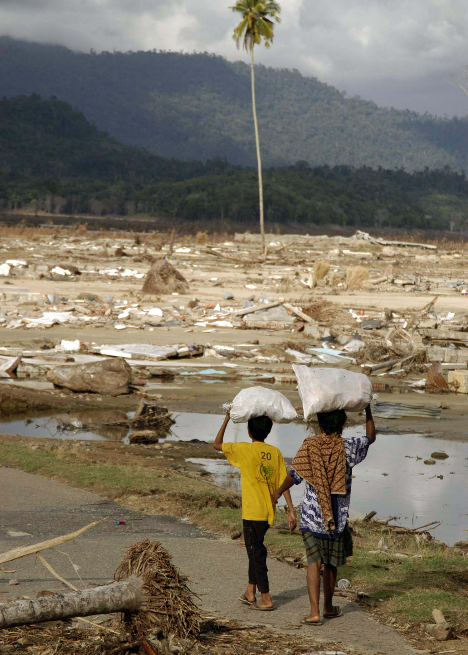 Lho Kruet, Sumatra, Indonesia (Jan. 16, 2005) - Indonesian locals from the remote village of Lho Kruet on the island of Sumatra, Indonesia, make their way to their camp after being issued food and water distributed by the Indonesian Army while an Assessment Team from the United Nations World Health Organization survey the damage inflicted by the Tsunami. More than 18,000 Marines, Sailors, Airmen, Soldiers and Coast Guardsmen with Combined Support Force 536 (CSF-536) are working with international military and commercial organizations to aid the affected people of Thailand, Sri Lanka and Indonesia after a magnitude 9.0 earthquake triggered devastating tsunamis. International efforts to minimize suffering and mitigate loss of life resulting from the effects of the earthquake and tsunami continue as the Combined Support Force of host nations, civilian aid organizations and U.S. Department of Defense, work hand in hand to provide humanitarian assistance in support Operation Unified Assistance. U.S. Navy photo by Photographer's Mate 3rd Class James R. McGury (RELEASED)